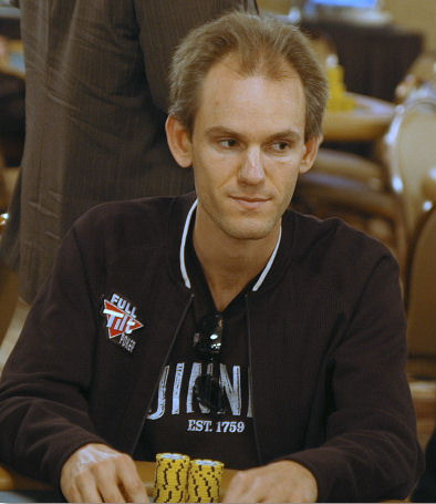 Allen Cunningham at the 2006 World Series of Poker.